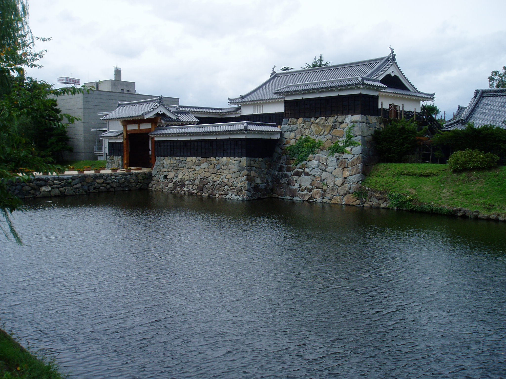 Taiko Mon (太鼓門; literally means, "Drum Tower Gate") of Matsumoto Castle in Matsumoto, Nagano, Japan.